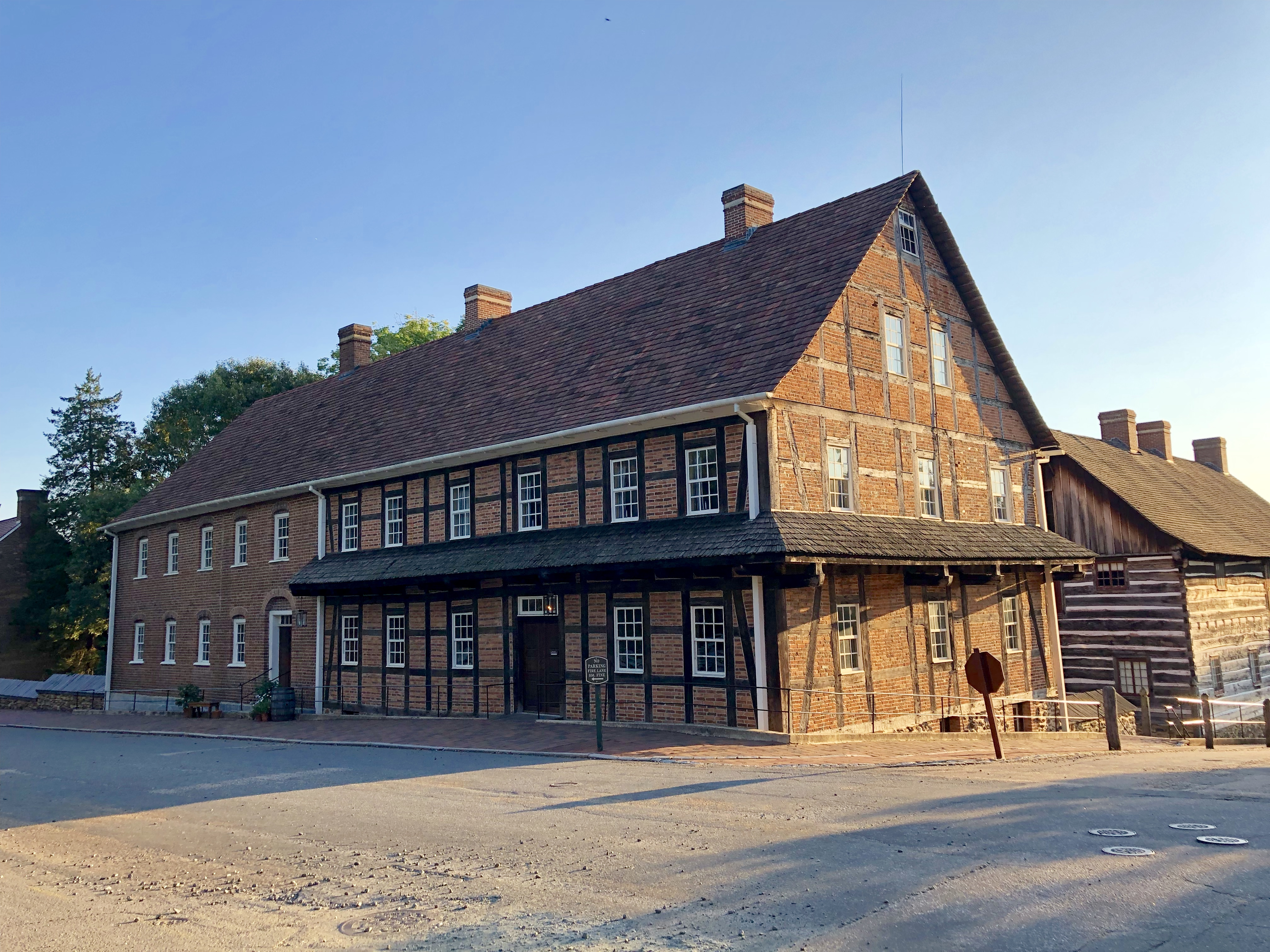 This is the Single Brothers Home, located at the corner of South Main Street and Academy Street in the Old Salem Historic District in Winston-Salem, North Carolina. Constructed in 1769, the half-timbered portion of the building was the one of the earliest buildings in Salem, and the distinctive appearance of the building as it appears today and did during its period of significance is not visible in the historic HABS photo from the 1940s. The building is a contributing structure in the Old Salem Historic District, listed on the National Register of Historic Places in 1966, and was designated as an individually listed National Historic Landmark in 1970.